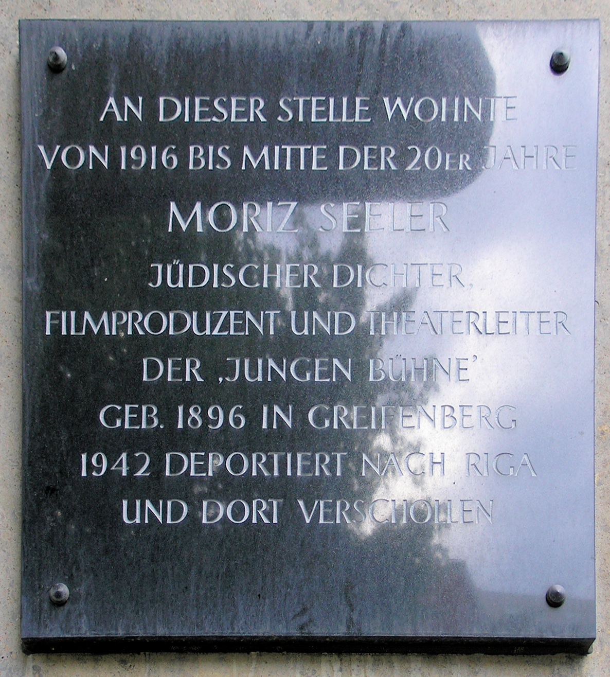 Memorial plaque, Moriz Seeler, Brandenburgische Straße 36, Berlin-Wilmersdorf, Germany Koordinate:52°29′57″N 13°18′25″E / 52.49917°N 13.30694°E